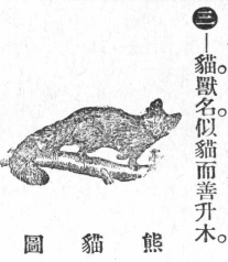 An illustration and brief description of the red panda in the Zhonghua Da Zidian (section sì, p. 25), first published in 1915.